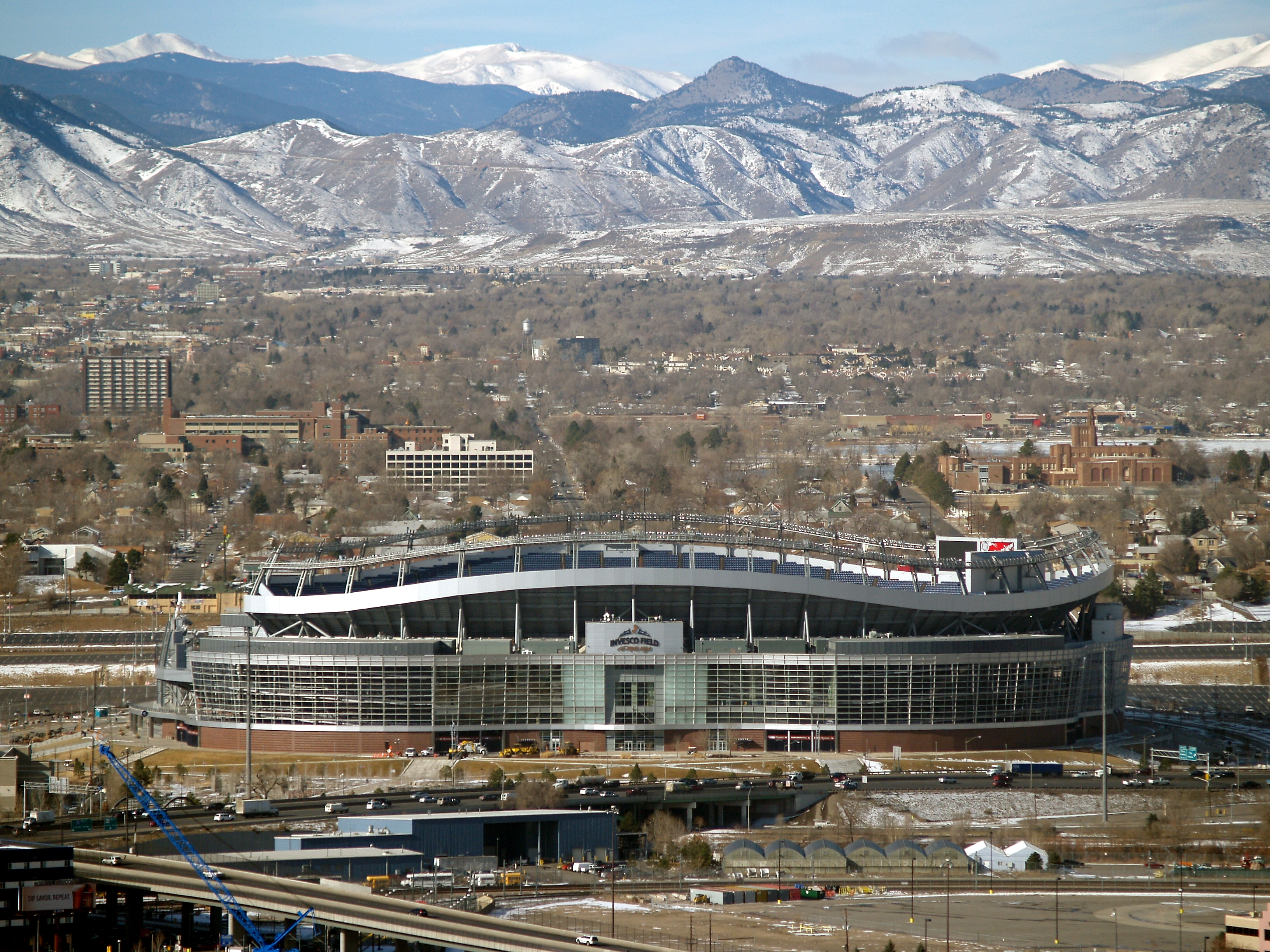 Denver's Sports Authority Field at Mile High (formerly Invesco Field)